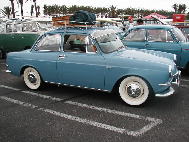 An original and unmodified 1963 Volkswagen 1500 “Notchback.”